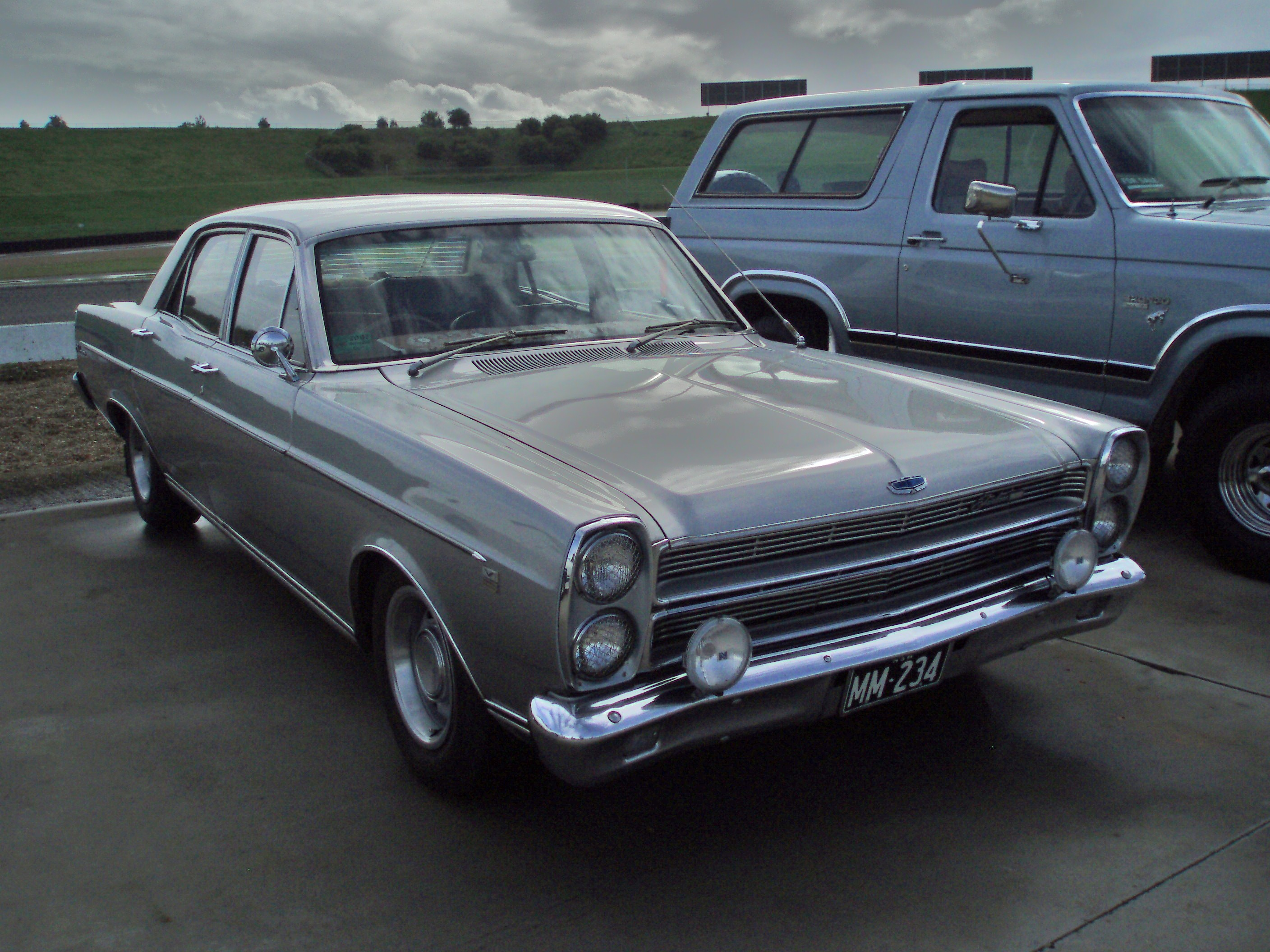 1970 Ford ZC Fairlane 500 sedan. Taken at the New South Wales All Ford Day 2009, held at Eastern Creek Raceway Sydney.